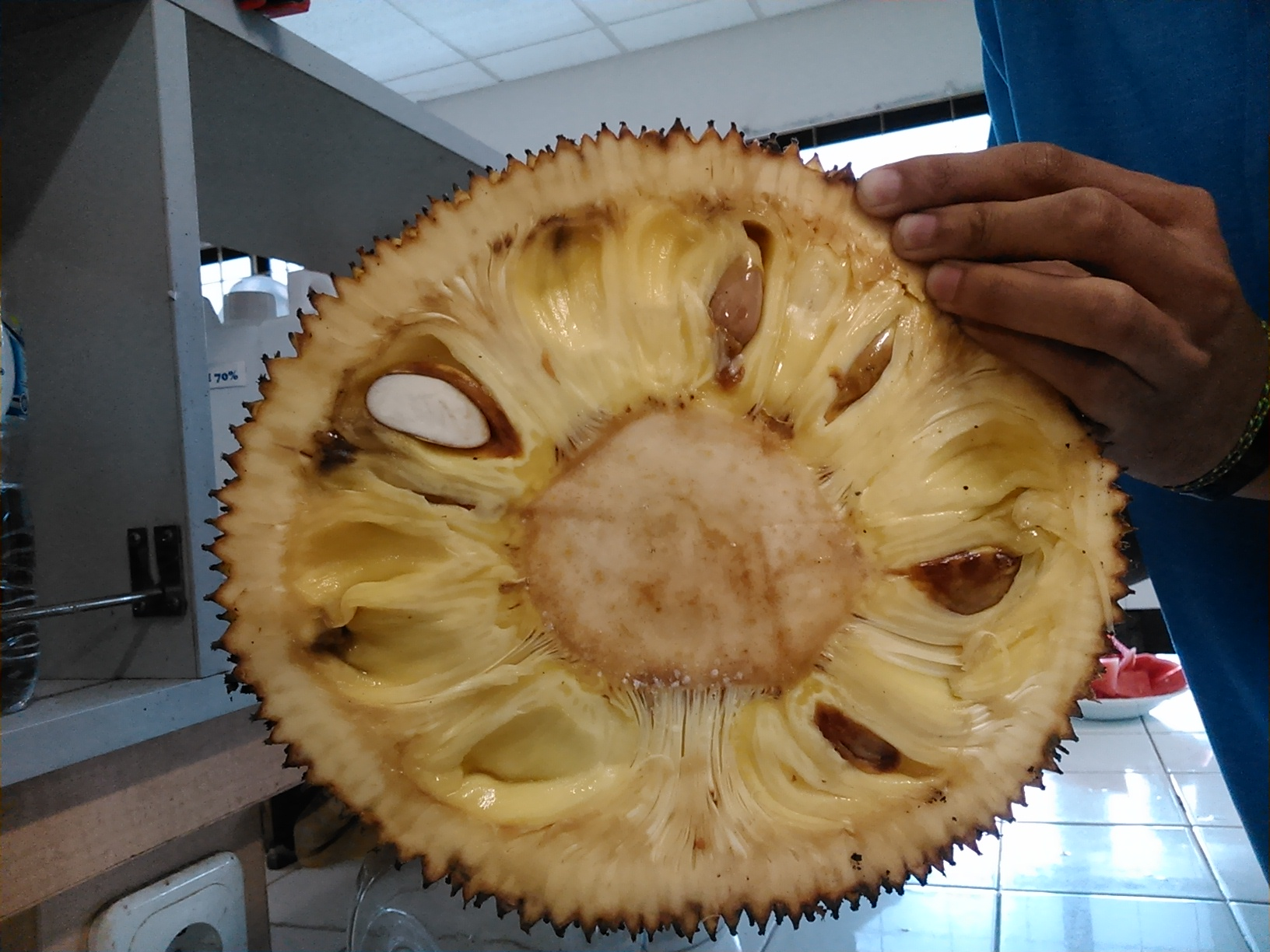 transversal cut of a jackfruit.